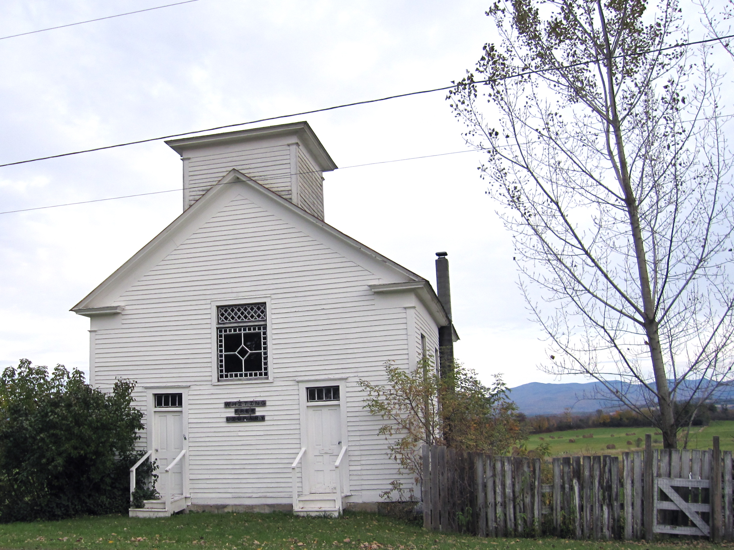 Photo of the Whiting Free Library on Route 30 in Whiting Vermont.